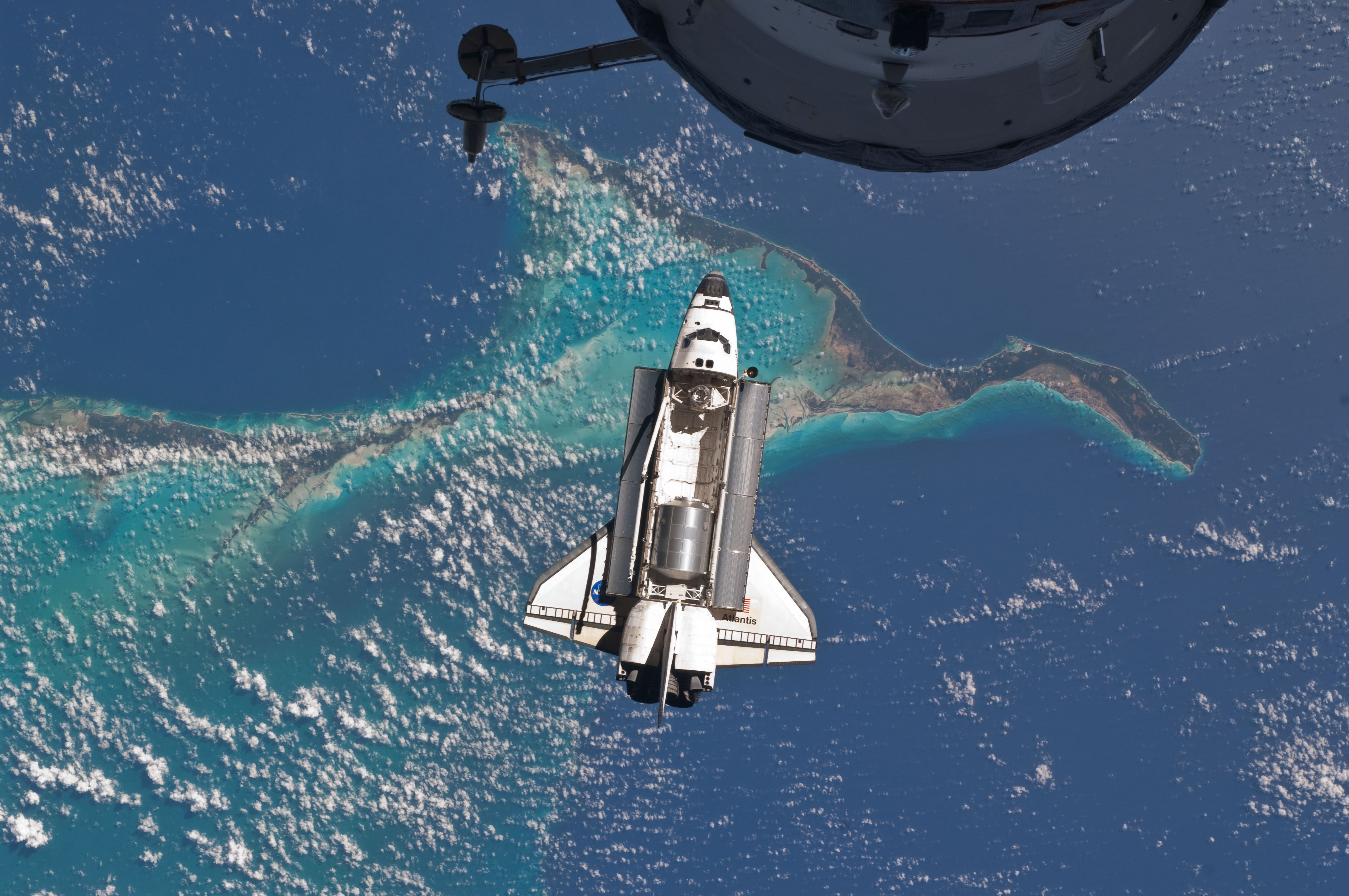 The space shuttle Atlantis is seen over the Bahamas prior to a perfect docking with the International Space Station at 10:07 a.m. (CDT). Part of a Russian Progress spacecraft which is docked to the station is in the foreground.